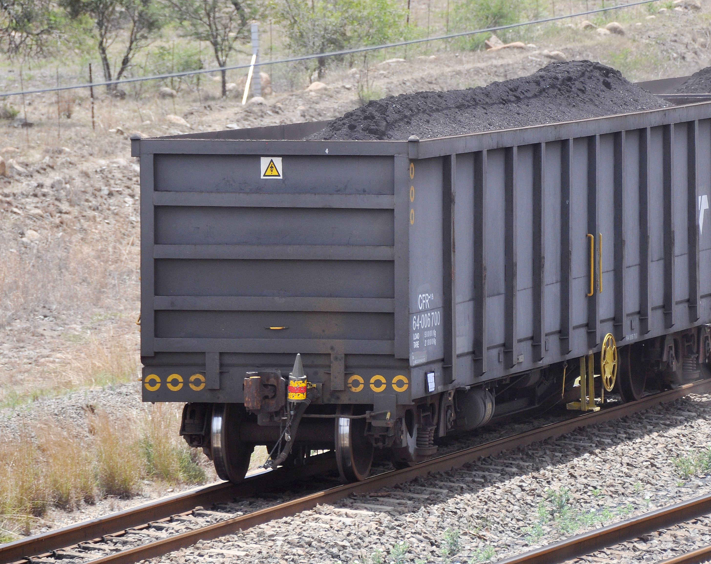 The last wagon of the train has the telemeter / end-of-train-device fixed, which reports to the driver via accelerometer the movement of the last car, measure the brake pipe pressure and drops air in case of an emergency brake. The device is powered by a little air turbine fed by the brake pipe.